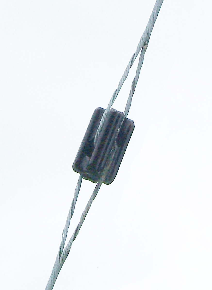 An egg-type porcelain strain insulator, sometimes called a "Johnny ball". These are used in guy cables supporting utility poles, to prevent any high voltage on the cable due to leakage currents or an electrical fault on the pole from reaching the lower part of the cable which is accessible by the public. They are also used in guys supporting radio antenna masts. This design has two mechanical advantages. The ceramic is under compression rather than tension, which takes advantage of ceramic's greater compressional strength; and if the ceramic breaks the two wire loops are still linked and will not part.